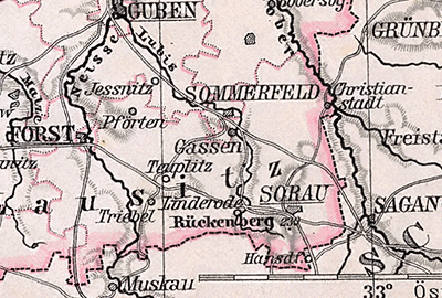 Detail from a map of Brandenburg.